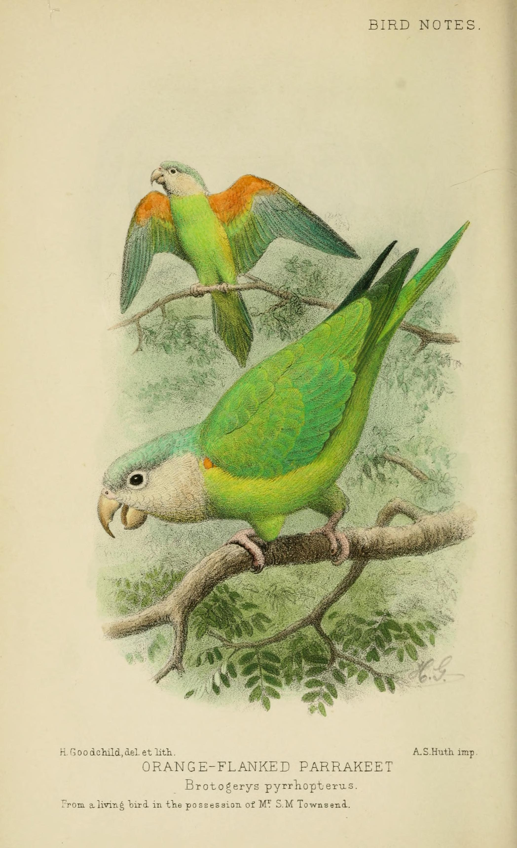 Title: Bird notes Year: 1902 (1900s) Authors: Foreign Bird Club National British Bird and Mule Club Subjects: Birds -- Periodicals Birds -- Great Britain Periodicals Publisher: Brighton : Foreign Bird Club : National British Bird and Mule Club Text Appearing Before Image: E. W. C. Answer: Gouldian Finches, both Red-headed and Black-headed, have been bred fairly often in this country. Like allbirds, other than domesticated races such as Canaries andBengalese, they are much more easily bred in aviaries than incages, and in outdoor aviaries than in indoor ones. Outdooraviaries are better without glass—except that a glass screenmay sometimes be useful as a shelter from the wind in anexposed situation. The birds intended for breeding should beput out in May, on a fine, warm day. It will be well to bringthem indoors again in November. If the aviary is turfed, theGouldian Finches will require nothing beyond their ordinaryseed for rearing their young. If there is no turf, some kind ofgreen food must be regularly supplied. A lump of rock salt,moistened daily, has been recommended for these and otherbirds—I cannot say that my birds have ever appreciated thisdelicacy. H. R. F. BIRD NOTES. Text Appearing After Image: i.Goodduld.iel.etlitli. A-S.Huth. imp. ORANGE-FLANKED PARRAKEETBrotogerys pyrrTiopterus.^rom a.liviTi; loiri in fhe possession of M^ S.M Townseni.